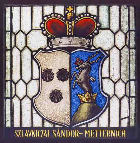 Sándor-Metternich's coat of arms, 1805.